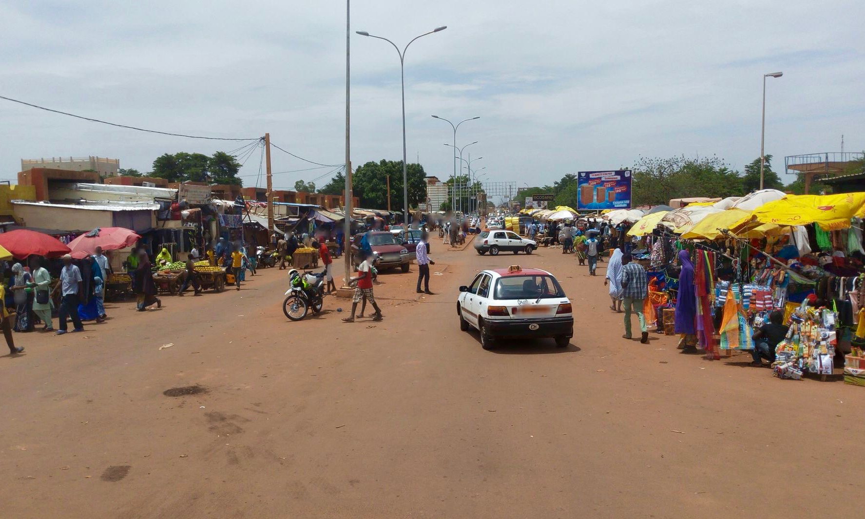 Avenue du Kourfeye in Wadata, Route Filingué, Niamey.